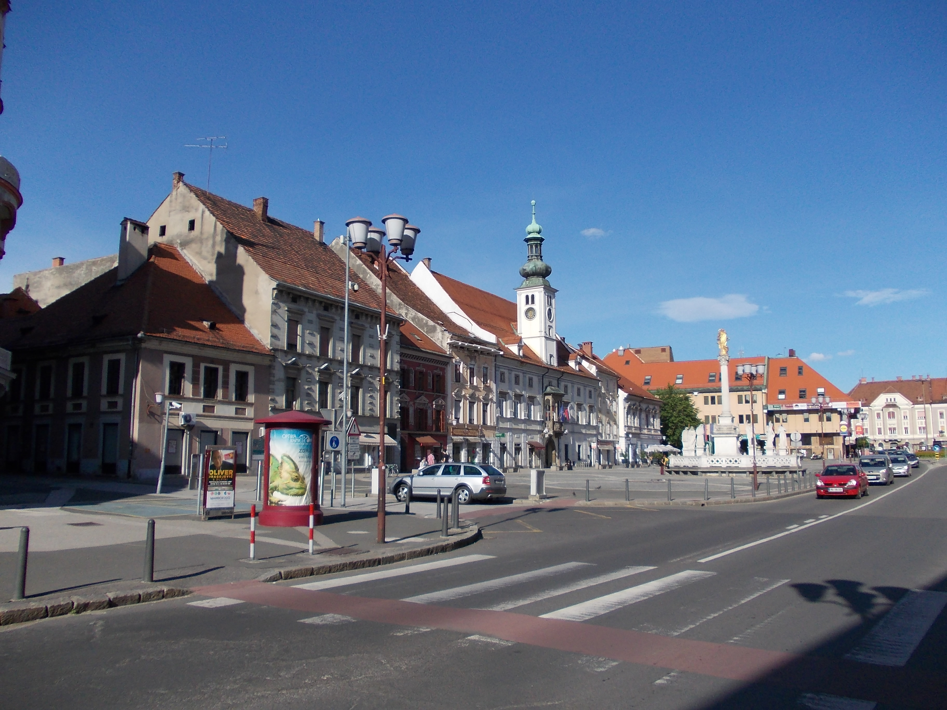 Glavni trg, Maribor